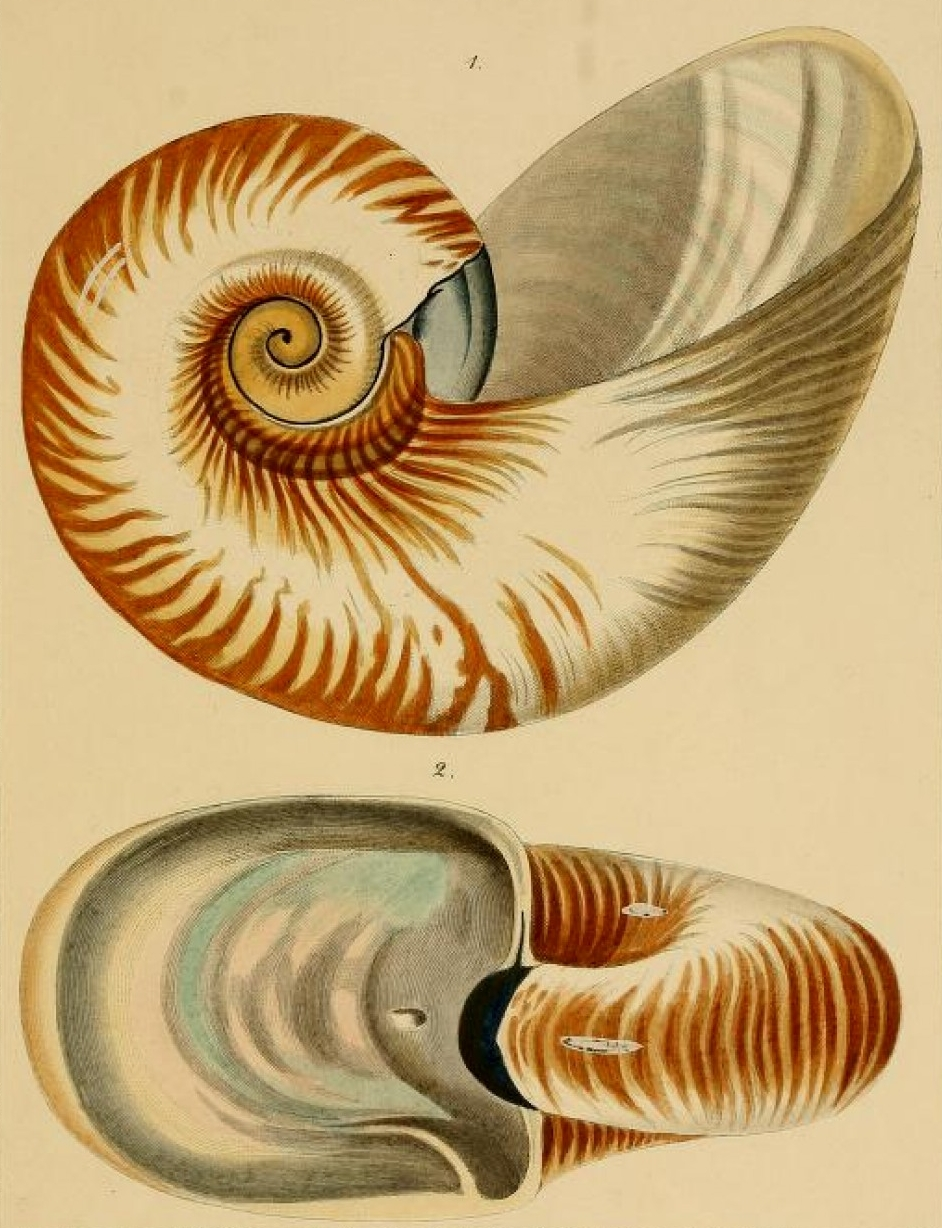 Illustration of Allonautilus scrobiculatus (Lightfoot, 1786)[1] from Systematisches Conchylien-Cabinet (Nürnberg :Bauer und Raspe,1837- ).[2]